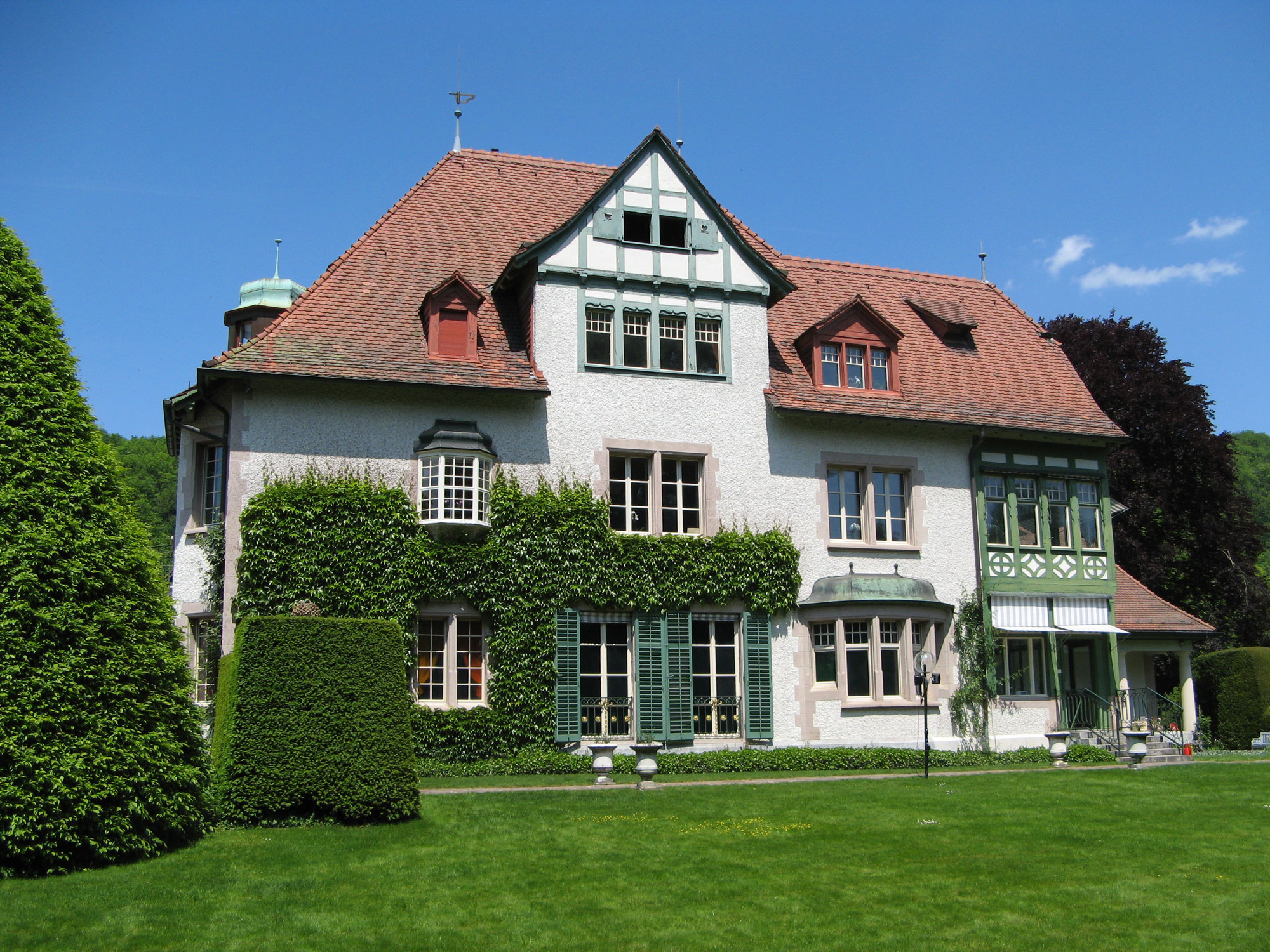 Langmatt museum seen from the park